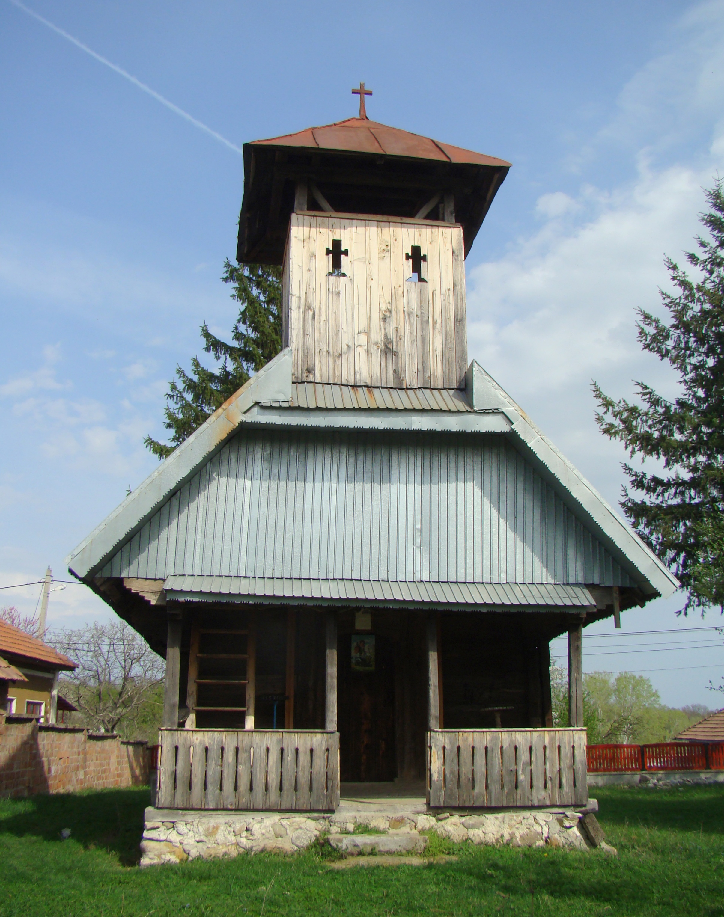 Saint George's wooden church in Voiteștii din Vale, Gorj county, Romania